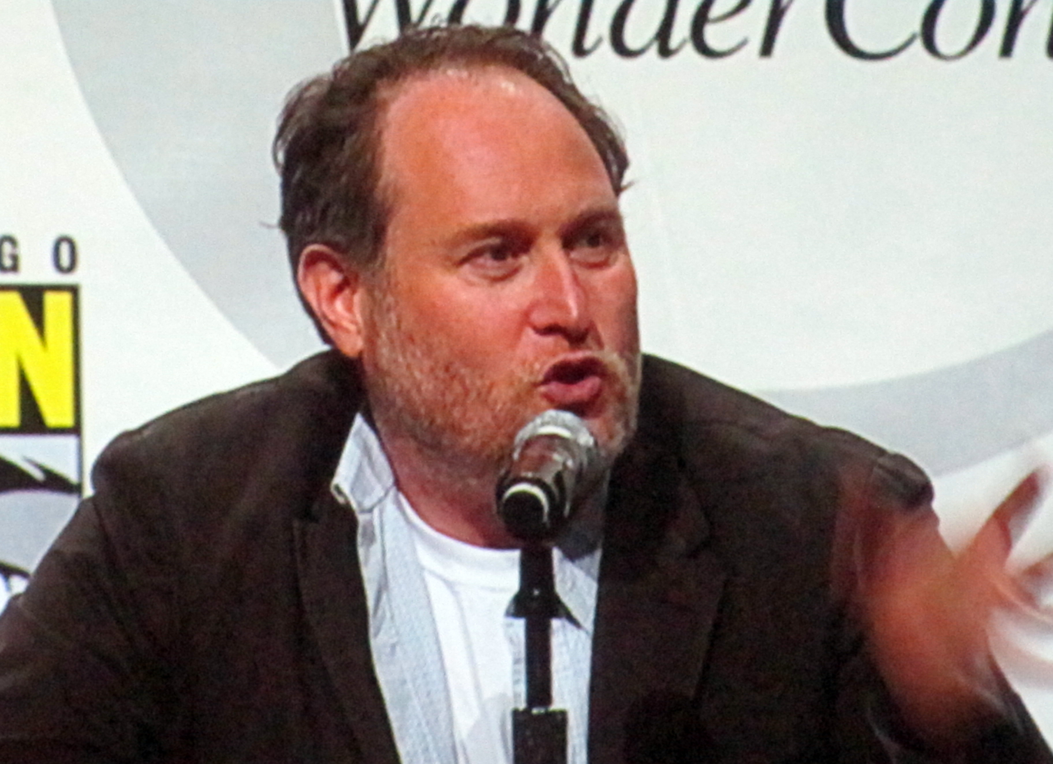 Jon Turteltaub, director of The Sorcerer's Apprentice, participating in a panel on the film at WonderCon 2010.